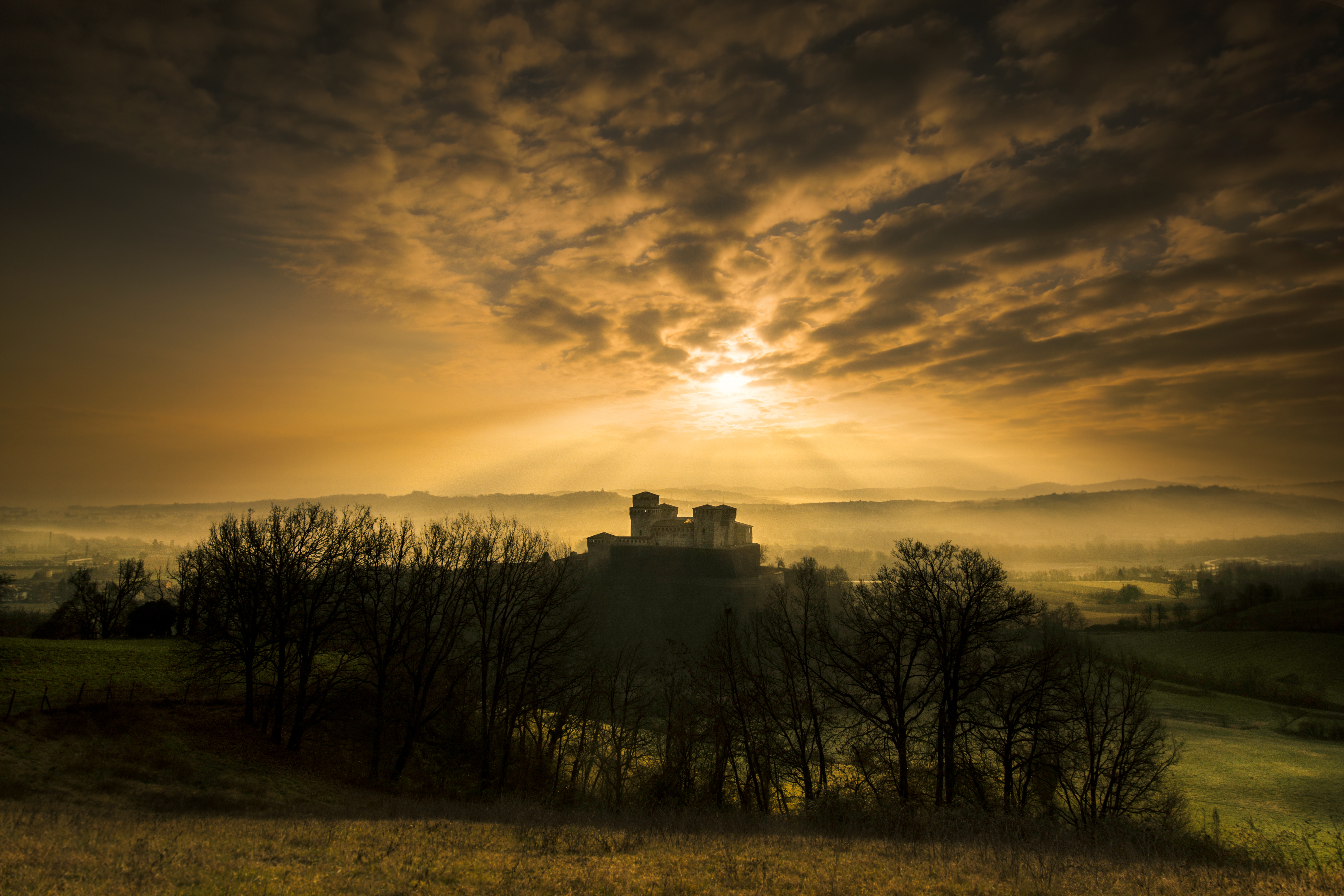 Lights at sunset - Castle of Torrechiara - Langhirano (PR) - Emilia-Romagna This is a photo of a monument which is part of cultural heritage of Italy.